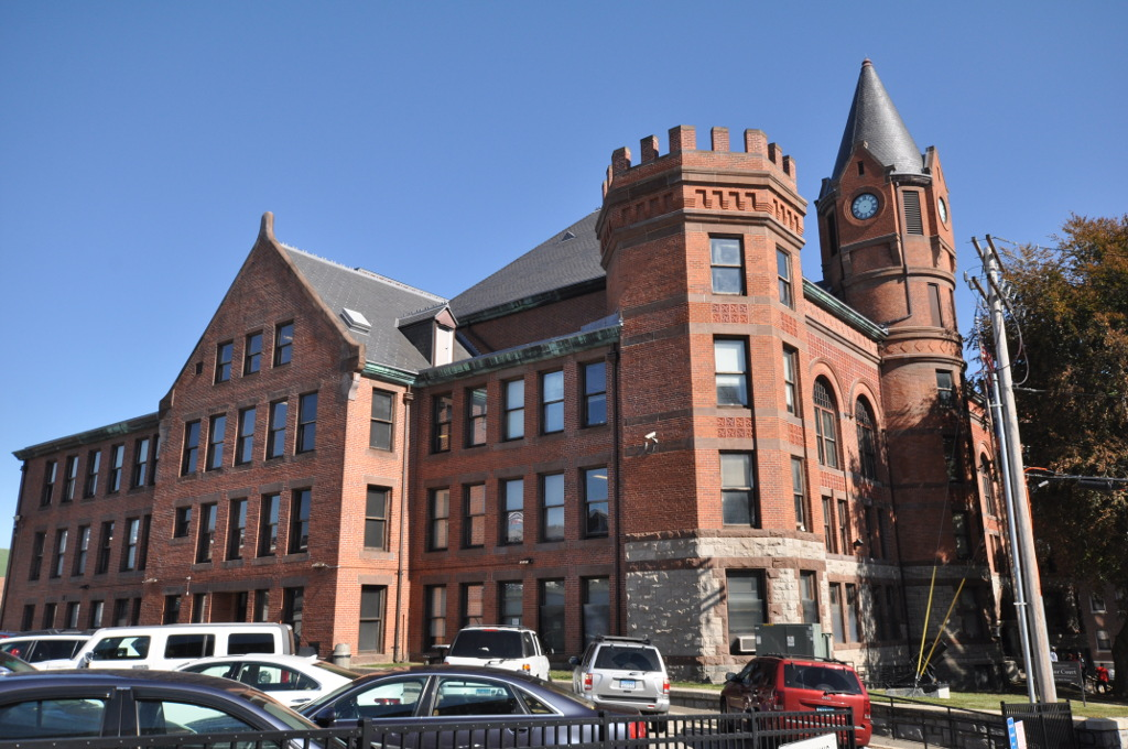 The former Fairfield County Courthouse, Bridgeport, Connecticut.